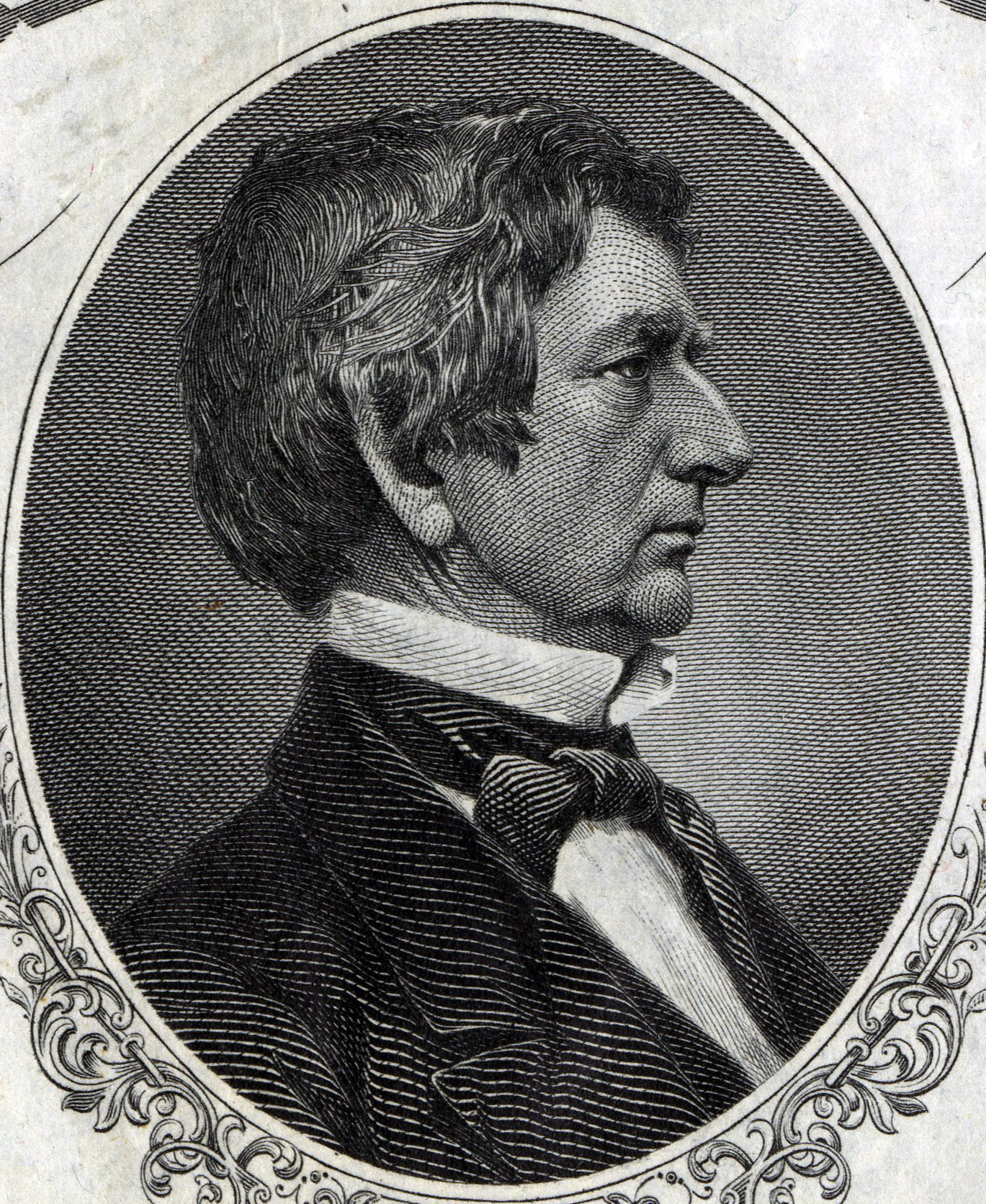 Engraved portrait from United States Currency